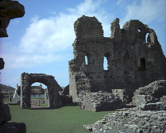 Ogmore Castle. The first earth and timber fortification built in 1116 was quicky replaced by the stone castle